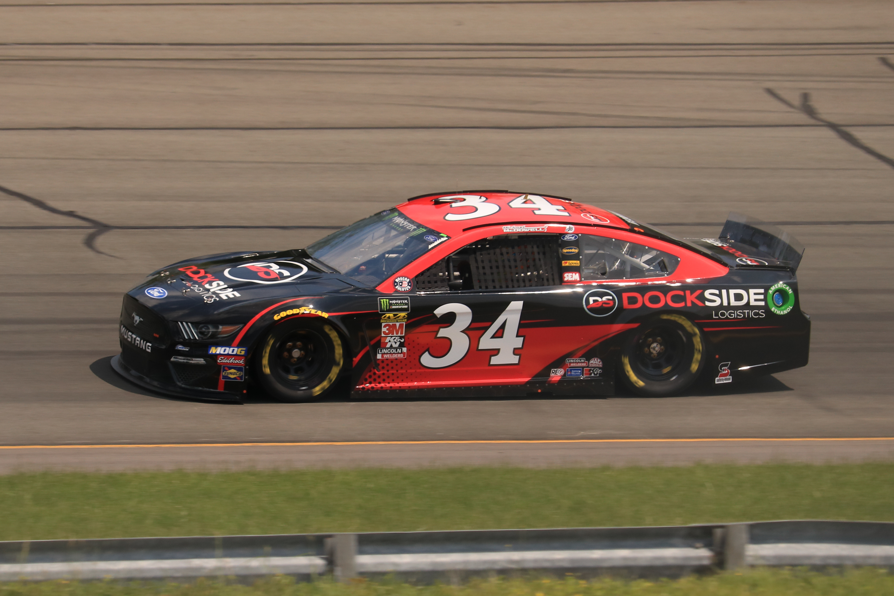 Michael McDowell practicing in his 34 Dockside Ford Mustang at the 2019 Pocono 400.